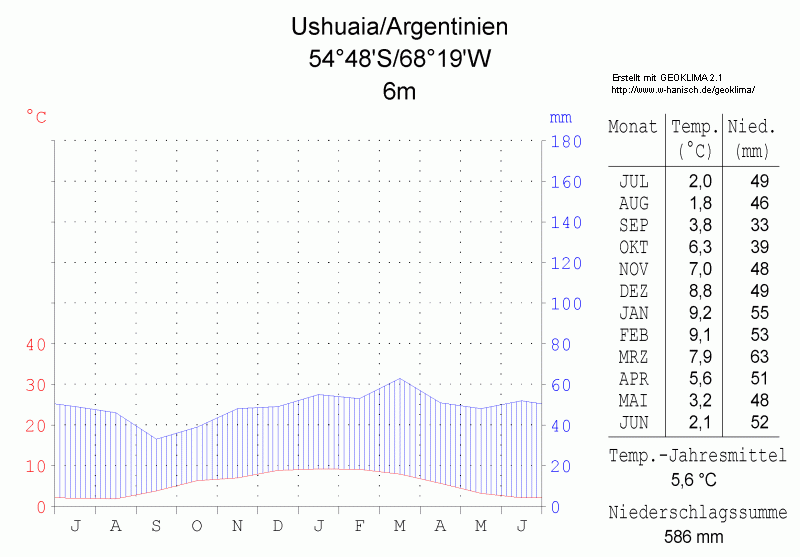 climate chart in the format by Walther and Lieth